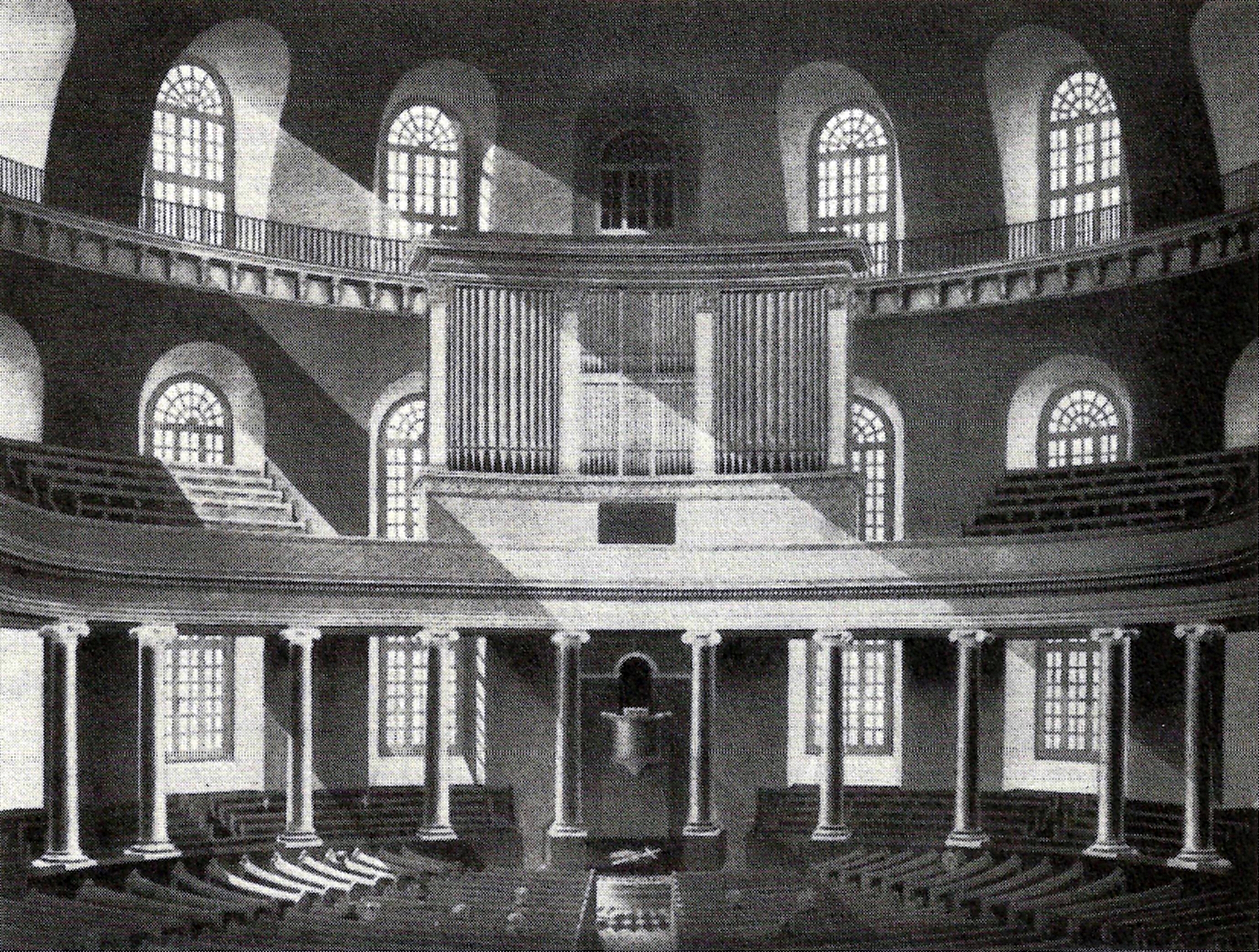 Paulskirche (Frankfurt) - Organ built by Eberhard Friedrich Walcker 1833